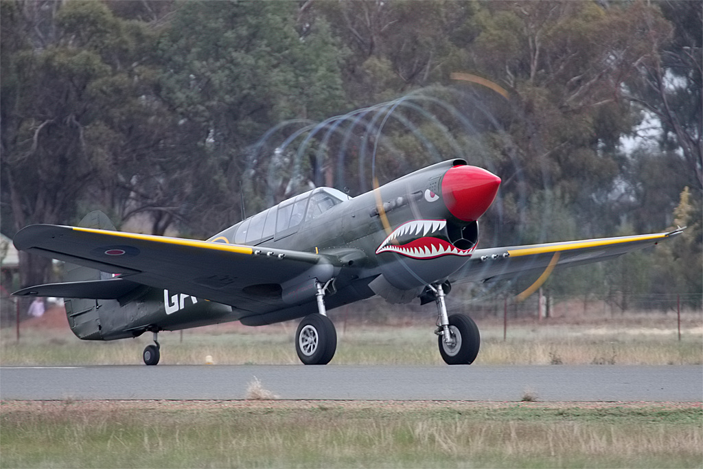 Unusual view of Propeller Tip Vortices being generated by P-40N1 Warhawk VH-ZOC at Temora in June 2009. Allan Arthur was taking off for a Formation Display with Temora Aviation Museum's Mk 16 Spitfire VH-XVI. Surprisingly, there were no vortices during the Spitfire's take-off, 30 seconds later. The P-40N is painted in RAF 112 Squadron green livery, with Code GA-Q. (The 'Shark Mouth' Nose Art makes the Warhawk look angry.)